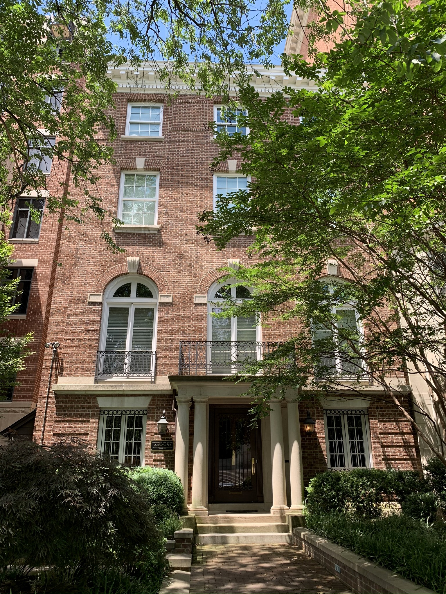 A former residence located at 1420 16th Street NW in the Dupont Circle neighborhood of Washington, D.C. Designed by Nathan Cornith Wyeth, it was built in 1907 for Rear Admiral John B. McGowan and his wife, Evelyn. The building currently houses the El-Hibri Foundation.